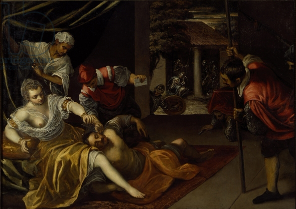 Samson and Delilah